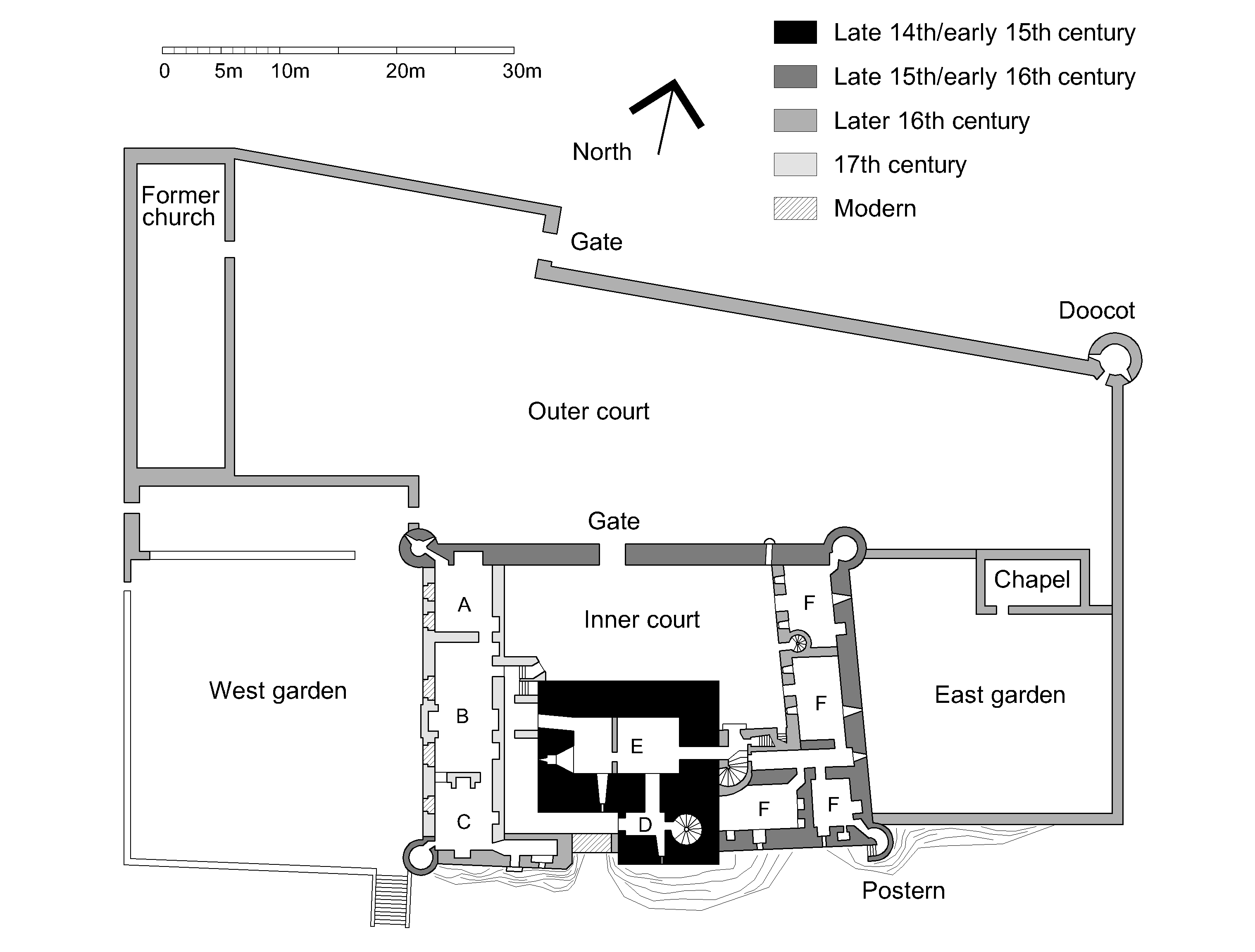 Plan of Craigmillar Castle, Edinburgh, Scotland. Key: A=Kitchen, B=Dining Room, C=Chamber, D=Tower entrance, E=Tower cellars, F=East range cellars